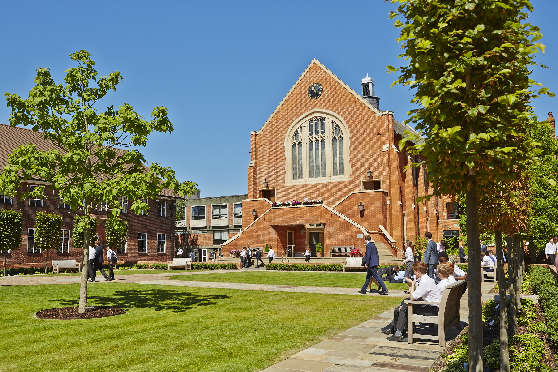 The new quad opened in 2015 set in the heart of the school.